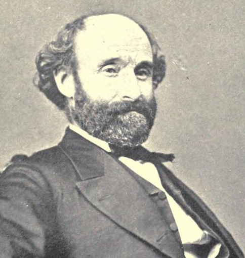 Hamilton Ward, Sr., Member of Congress from New York